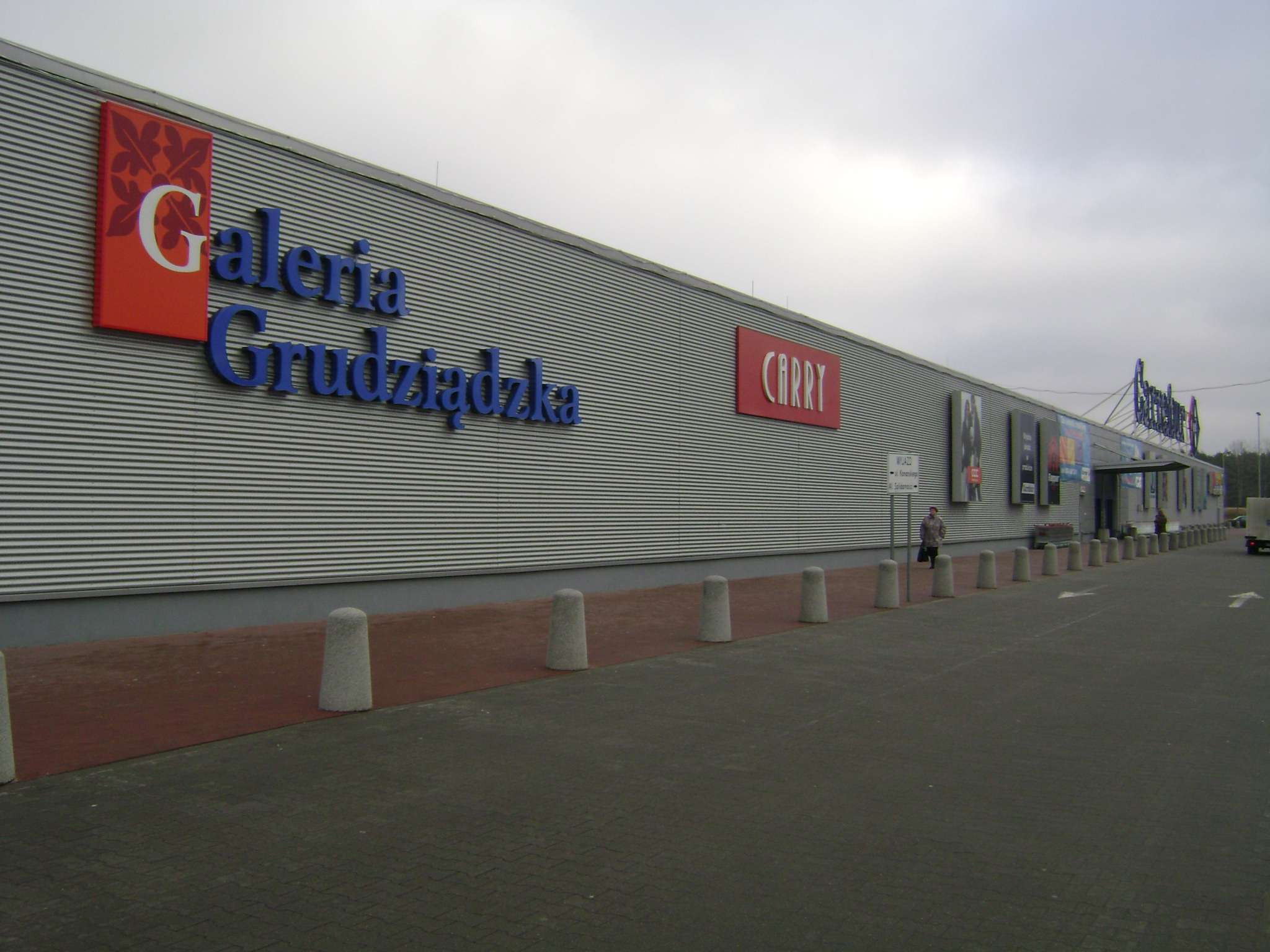 Galeria Grudziądzka, department store in Grudziądz